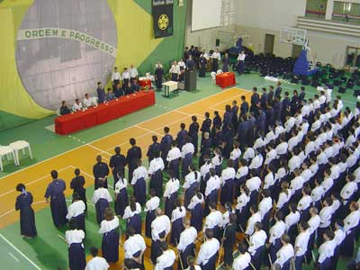 Opening cerimony of the 3rd Brazilian Kobudo Teams tournament